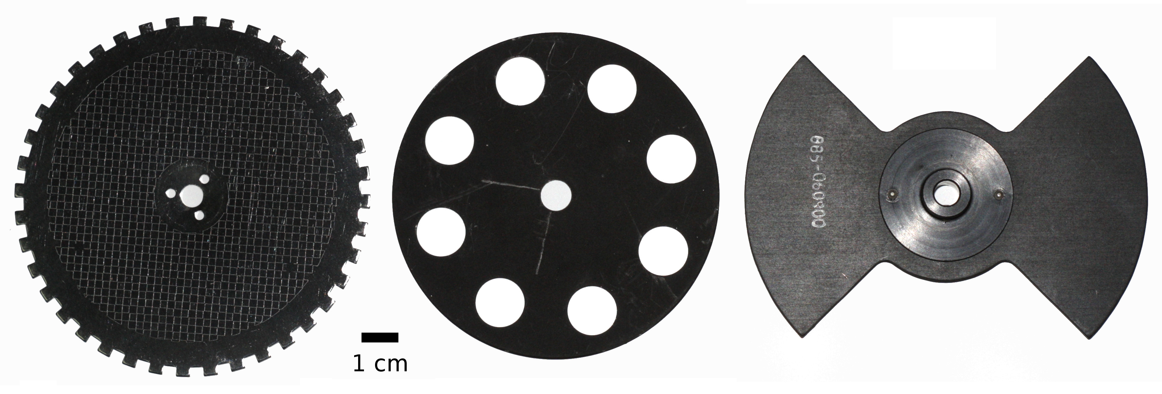 An assortment of optical chopper wheels. The diameter of the leftmost wheel is 9.5 cm.